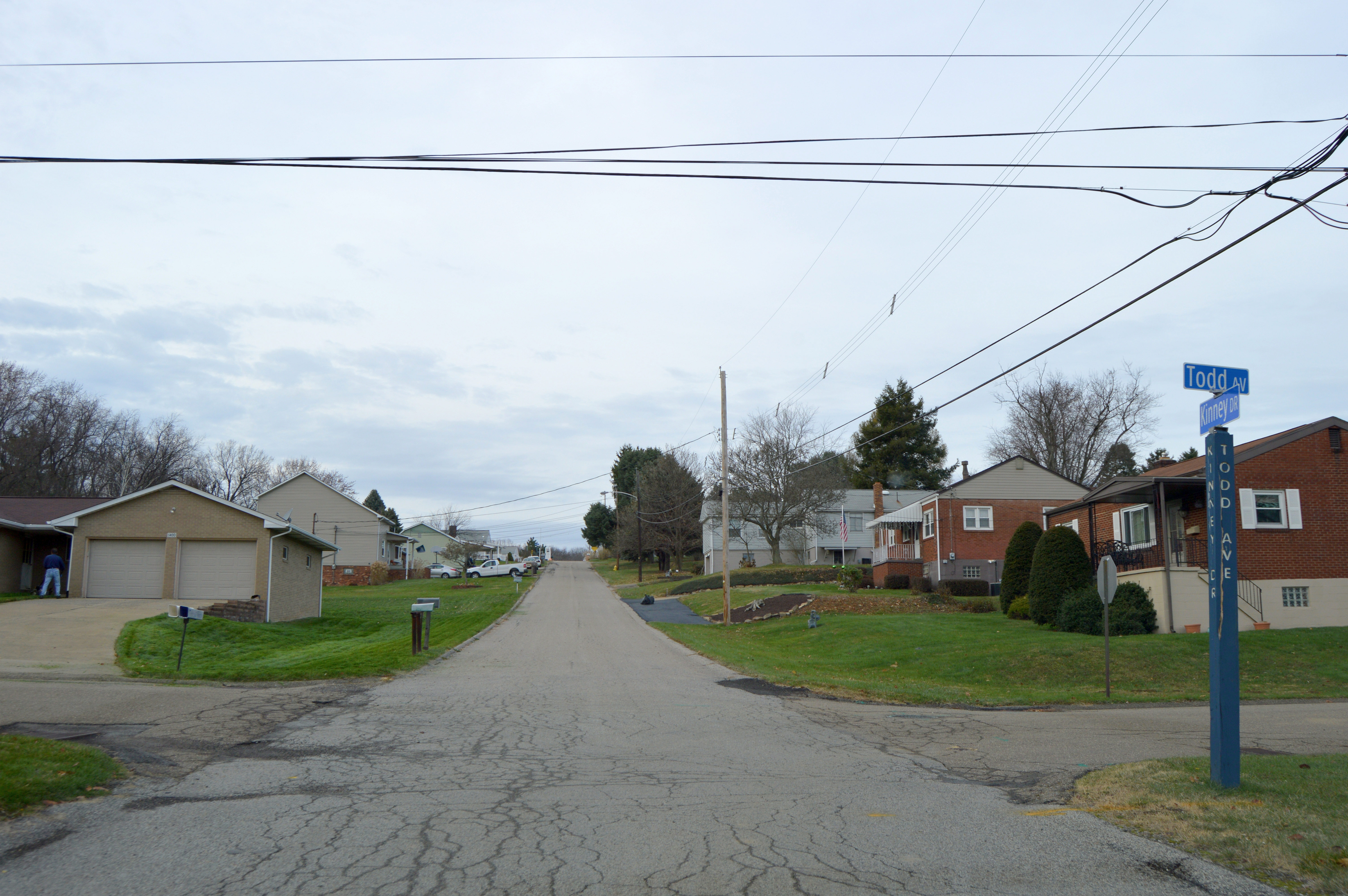 Residential neighborhood in Hopewell Township, Beaver County, Pennsylvania, United States, south of Aliquippa. Photo looks north on Kinney Drive from the Todd Avenue intersection.